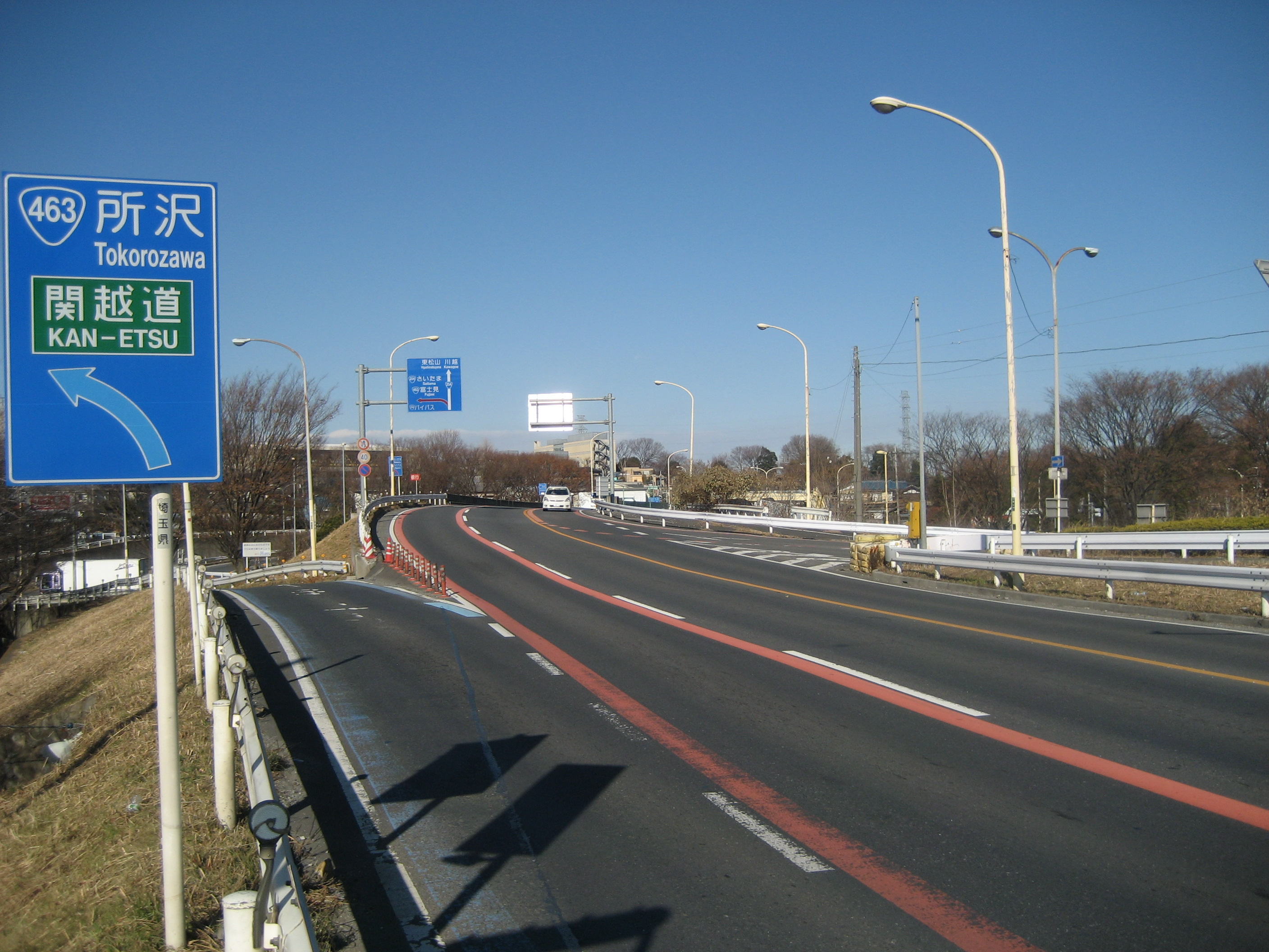 Hanabusa Inter Intersection on the Japanese National Route 254